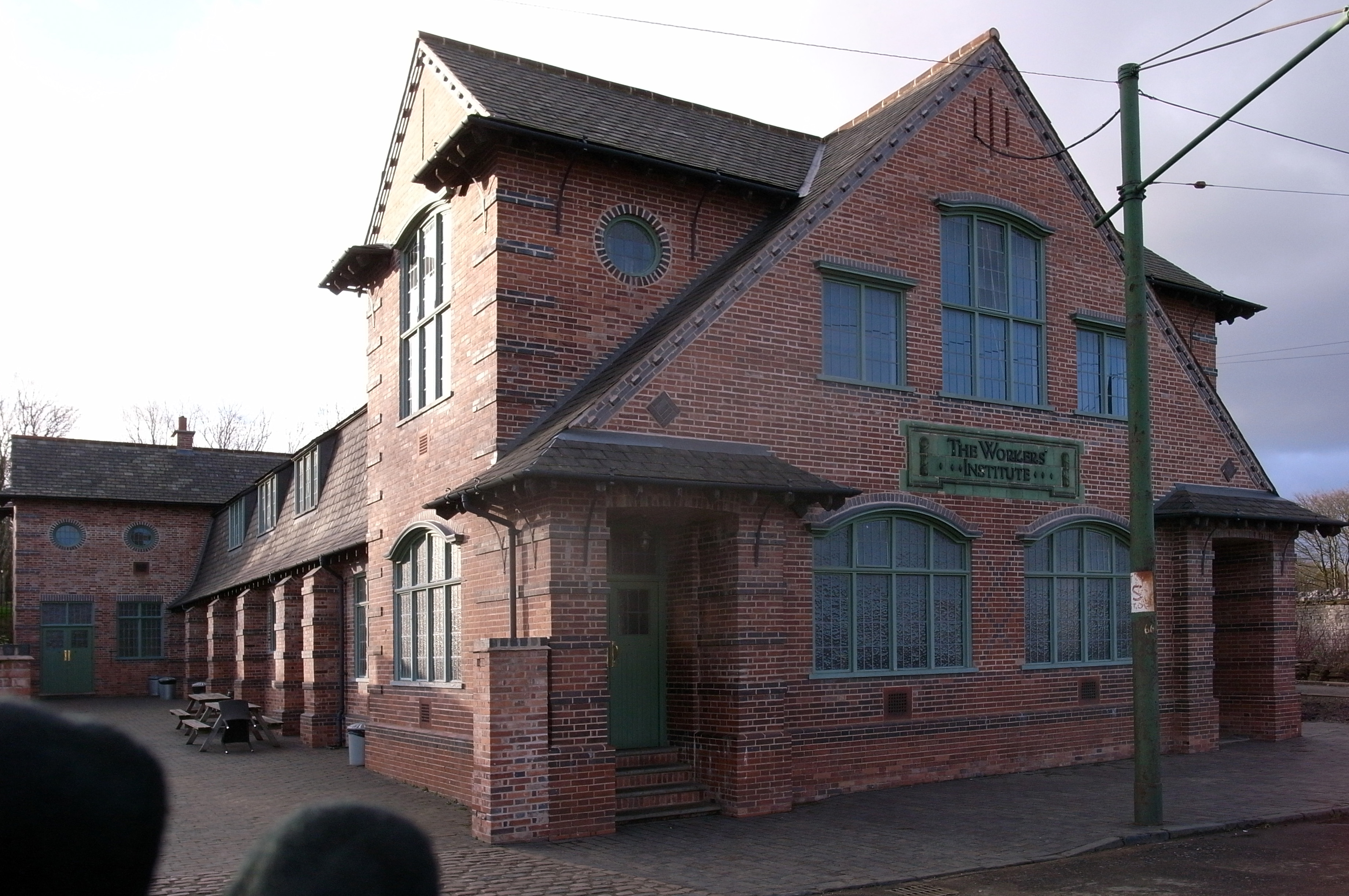 The Worker's Institute building moved from Cradley Heath to the Black Country Living Museum. (Edited to skew verticals to upright)